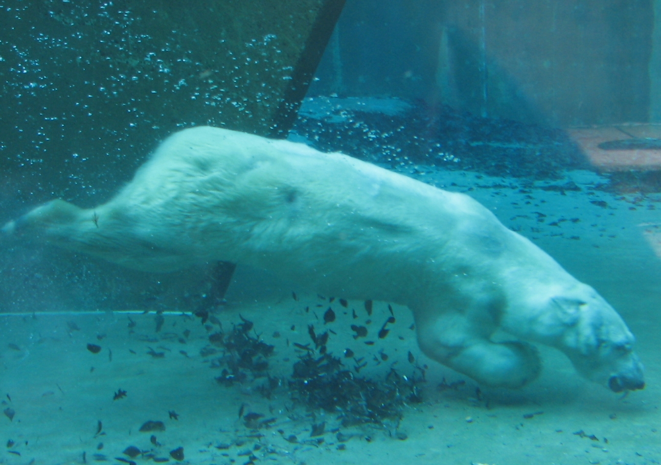 Swimming Polar Bear*